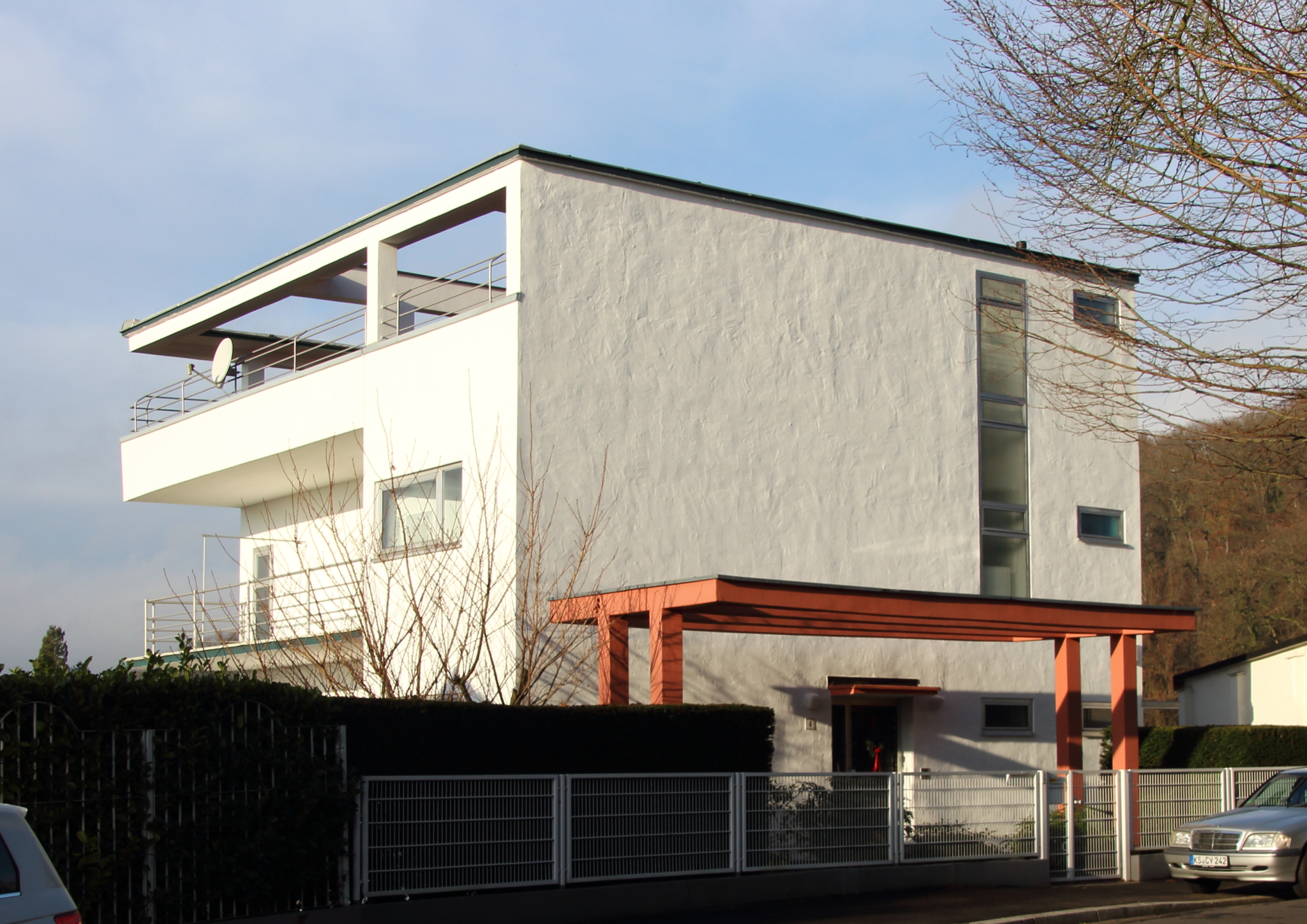 Hoffmann House, Herzogsweg 4, Wiesbaden, Hesse, Germany; built in 1927 by Architect Johann Wilhelm Lehr; protected munument